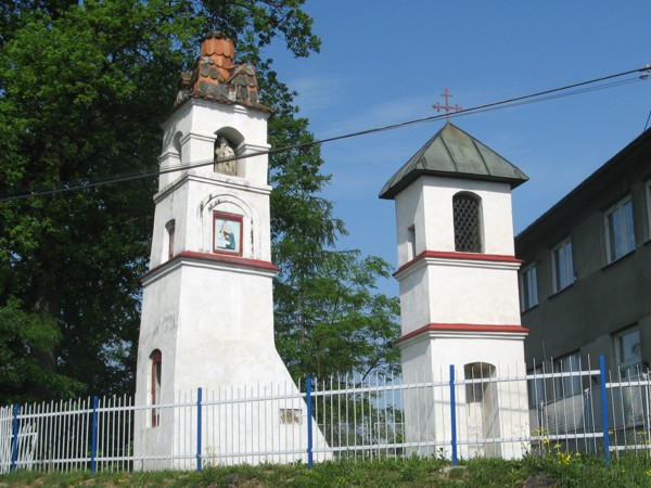 Shrine in Librantowa, Poland.